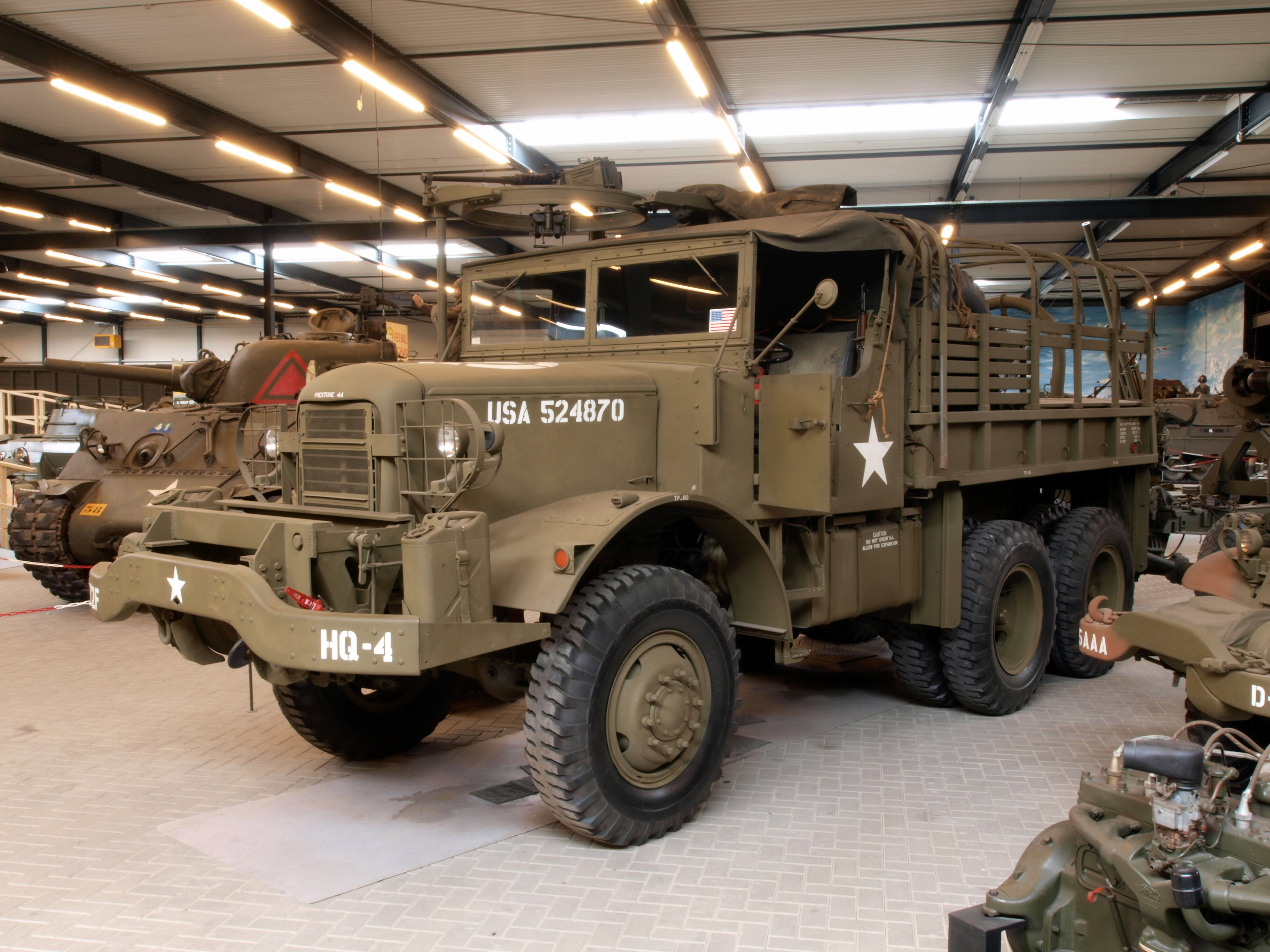 Photographed at the Marshallmuseum - Liberty Park - Oorlogsmuseum Overloon, The Netherlands. OLYMPUS DIGITAL CAMERA